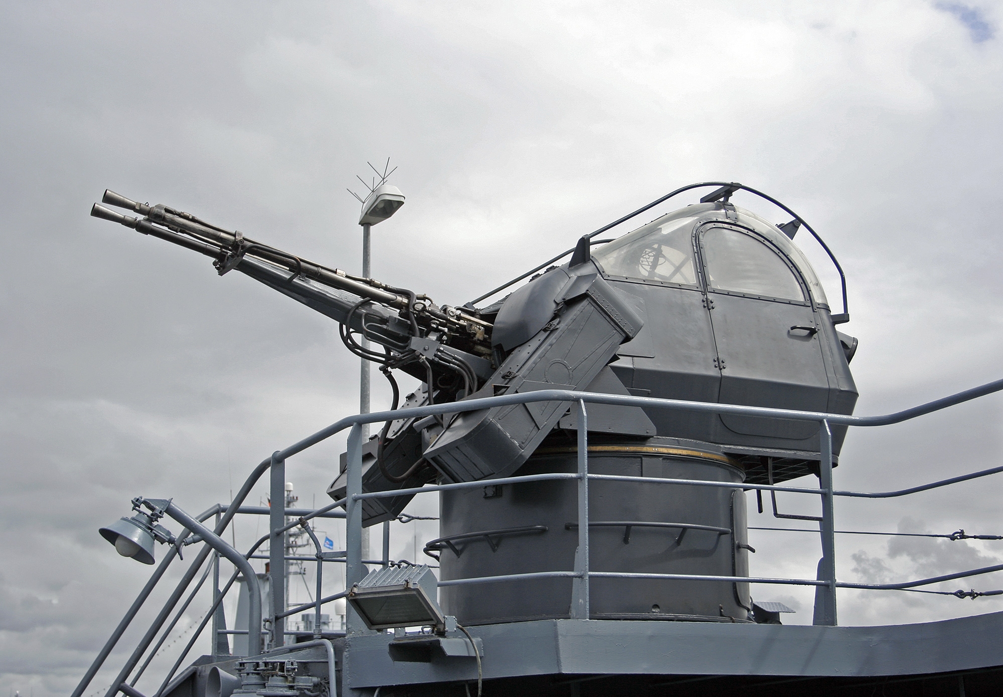 23 mm ZU-23-2MR Wróbel II naval gun on the Polish project 767 transport ship